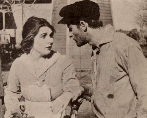 Still from the American drama film The Lonely Woman (1918) with Belle Bennett and Lee Hill (1894–1957), on page 25 of the May 18, 1918 Exhibitors Herald.